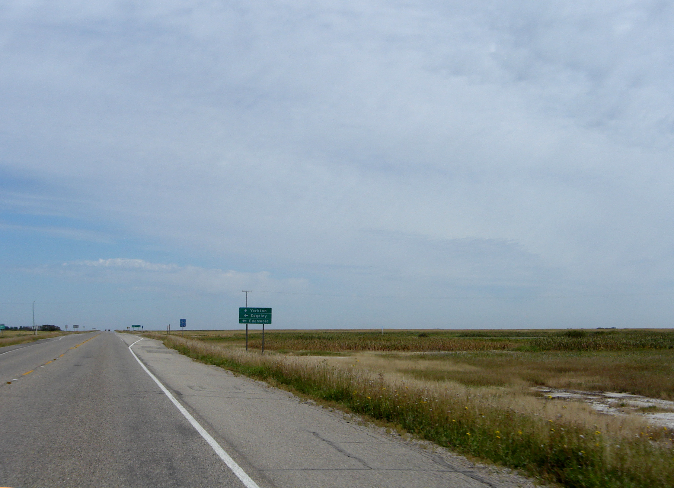 Sk Hwy 364 Edgely Edewold road sign on the Sk Hwy 10 Saskatchewan